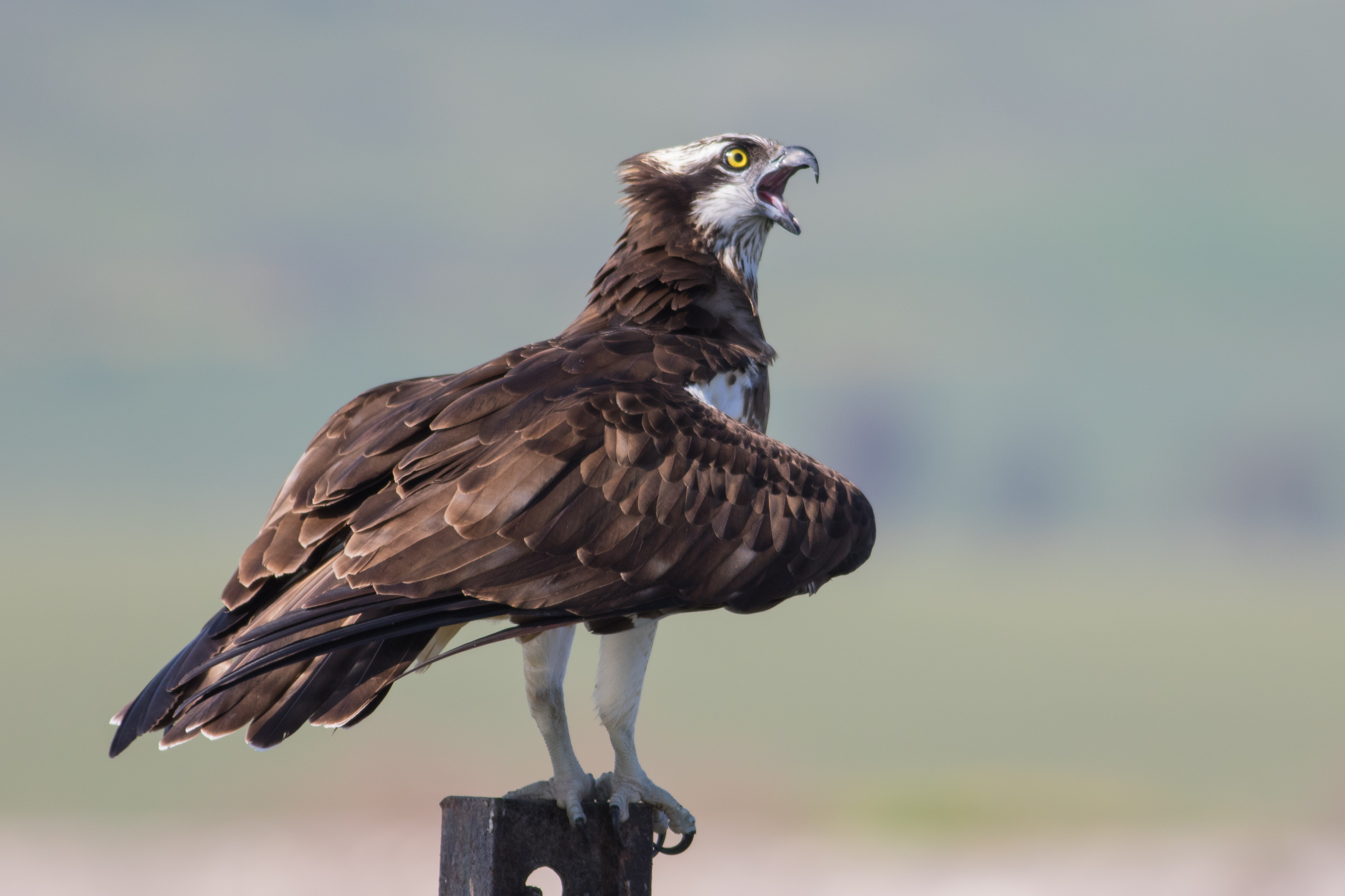 Osprey being bullied by A spur-winged lapwing Flyby. Valley of Springs Region, Israel.